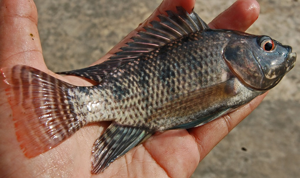 Oreochromis niloticus male, from Lumajang, East Java, Indonesia